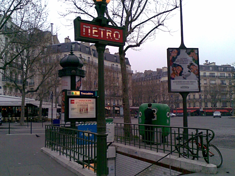 Entrance to Paris Métro station in 1920s style. Trocadéro.